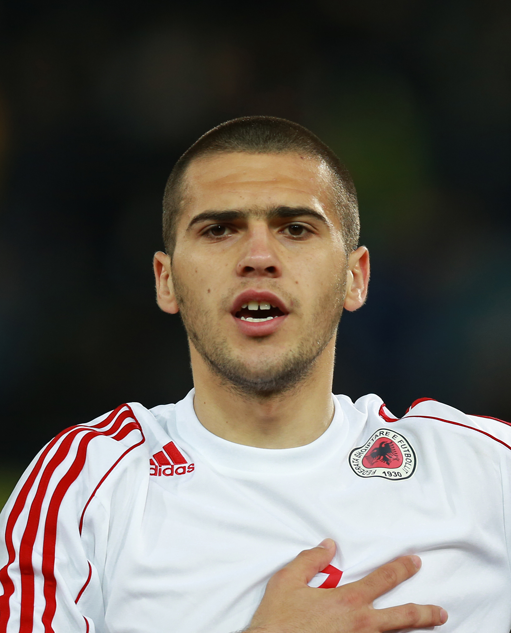 Gjelbrim Taipi at national under-21 football game Albania vs. Austria in Graz, UPC Arena, 5. March 2014